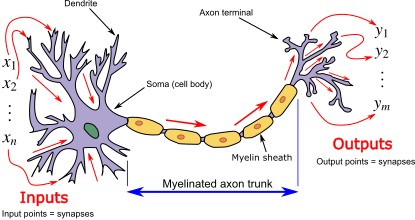 Neuron and myelinated axon, with signal flow from inputs at dendrites to outputs at axon terminals. NOTE: the arrow head under the legend "Axon terminal" in this png format is not rotated as in the display of the svg format. So use the png format for wiki articles. Attribution: this work is derived from Neuron.svg by Quasar Jarosz at English Wikipedia.